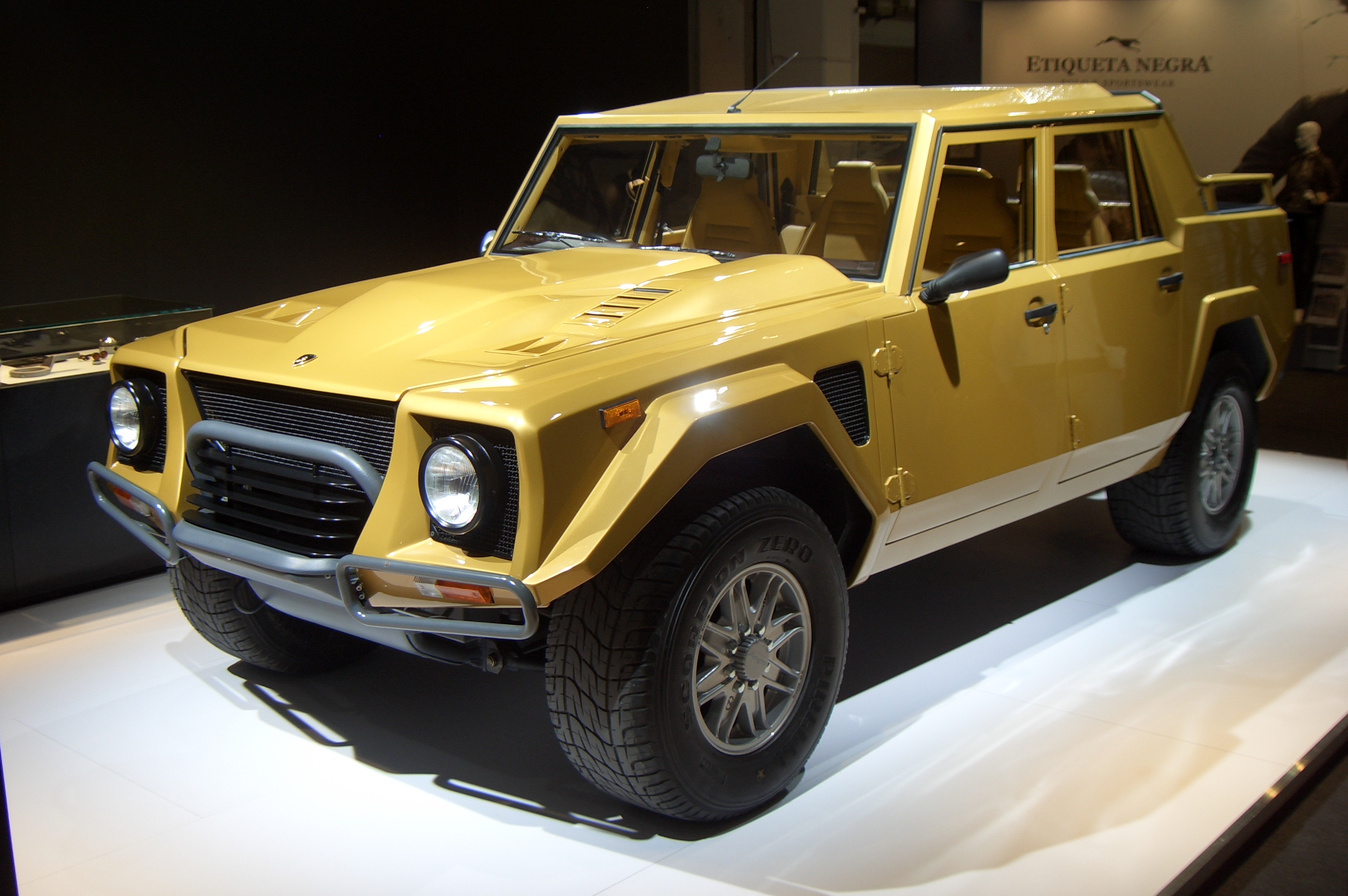 Lamborghini LM002, 1986-1992, seen at TECHNO CLASSICA 2012 in Essen, Germany